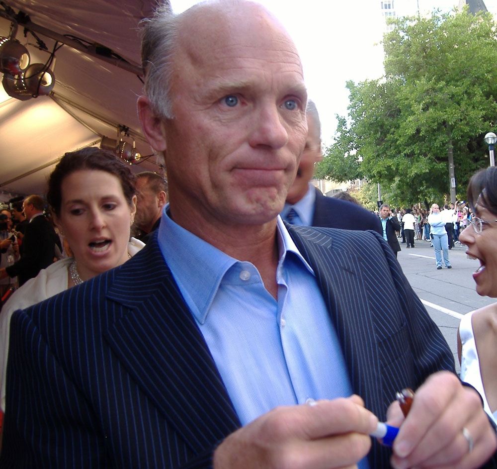 Ed Harris at the premiere for "A History of Violence" at the Toronto International Film Festival in 2005